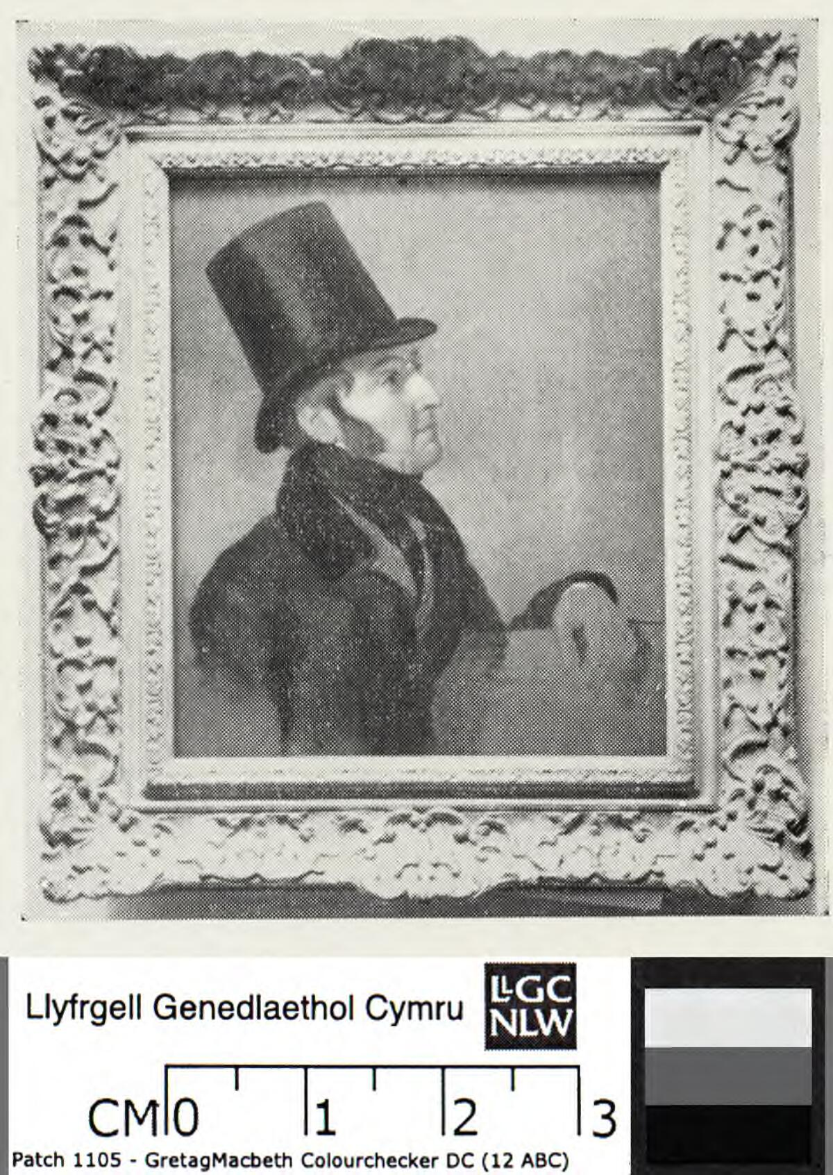 A portrait from the Welsh Portrait Collection at the National Library of Wales. Depicted person: George Price Trevor, M.P. for Carmarthenshire